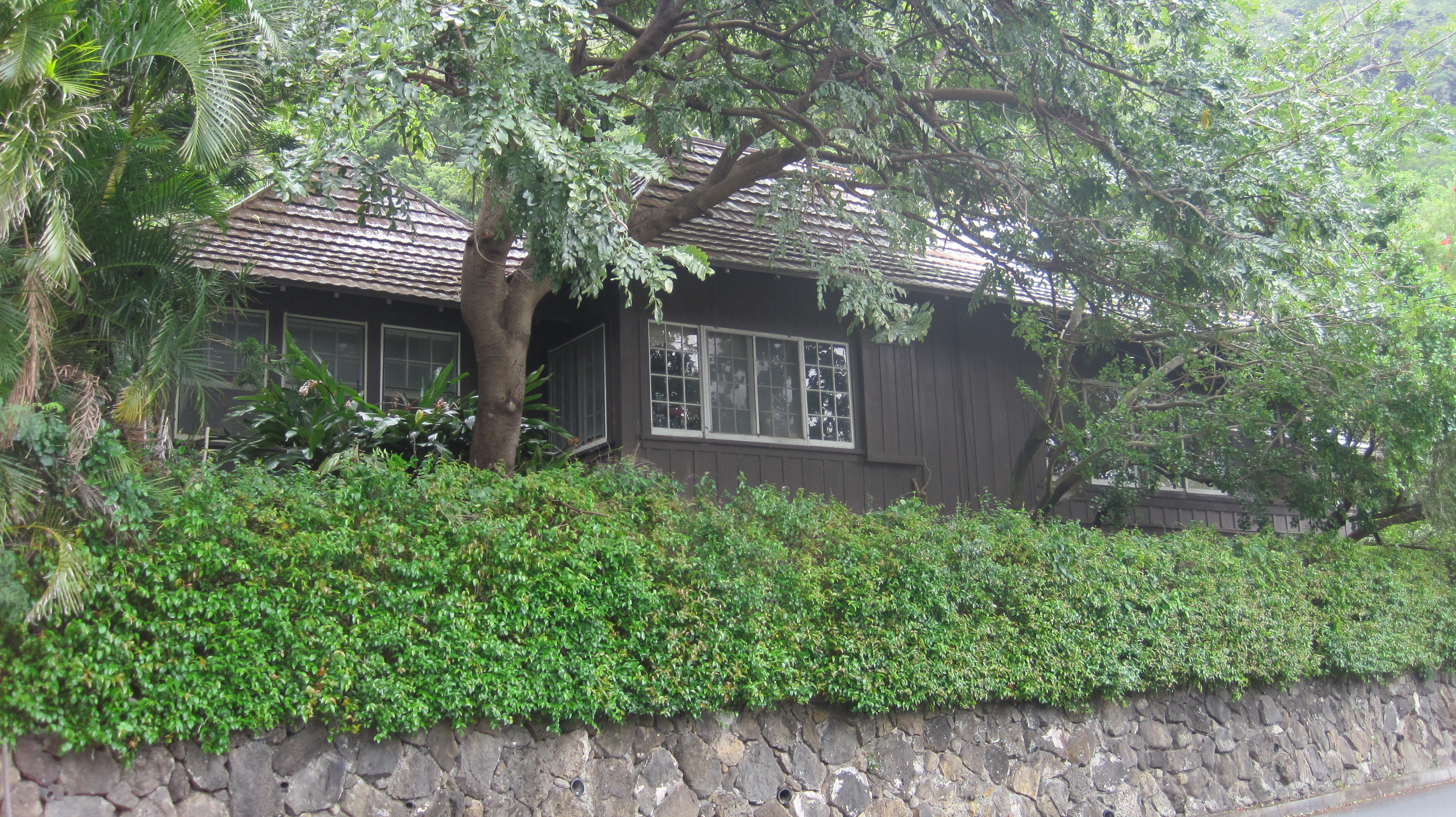 Front view, Jessie Eyman–Wilma Judson House, 3114 Paty Drive, Honolulu, Hawaii, built 1926, on National Register of Historic Places